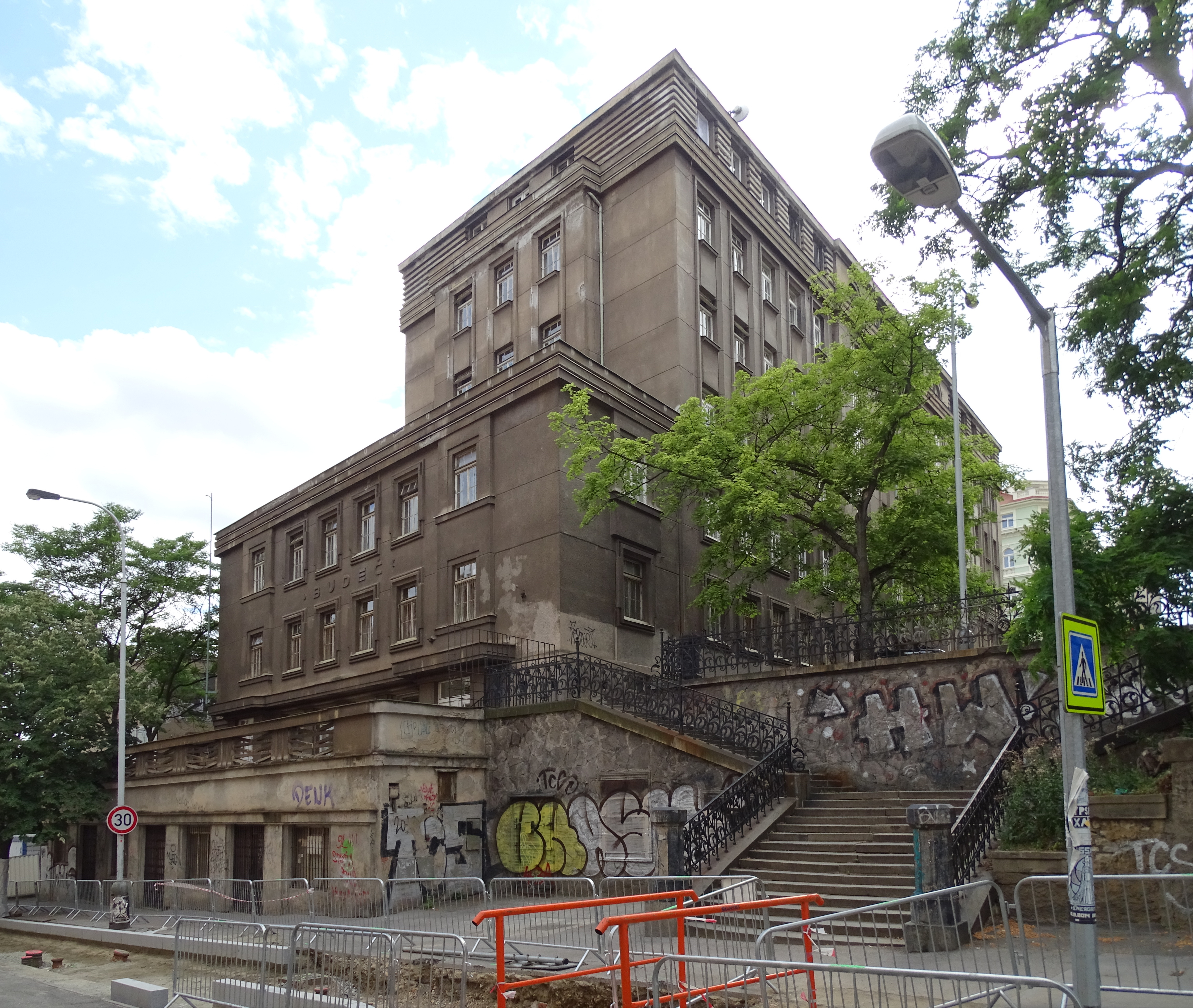 Prague-Vinohrady, Czech Republic. Wenzigova 1982/20, Bělehradská 1982/43, Budeč student housing, Bělehradská street, reconstruction of tram track, a staircase to Wenzigova street.